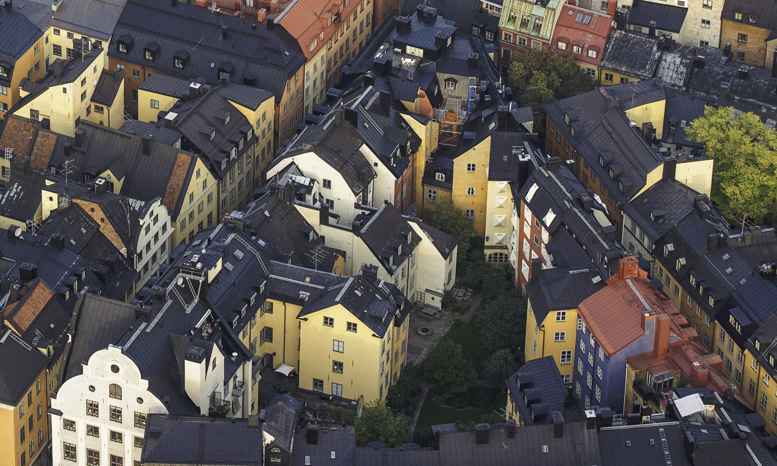 City block Cepheus. Gamla stan, Stockholm.